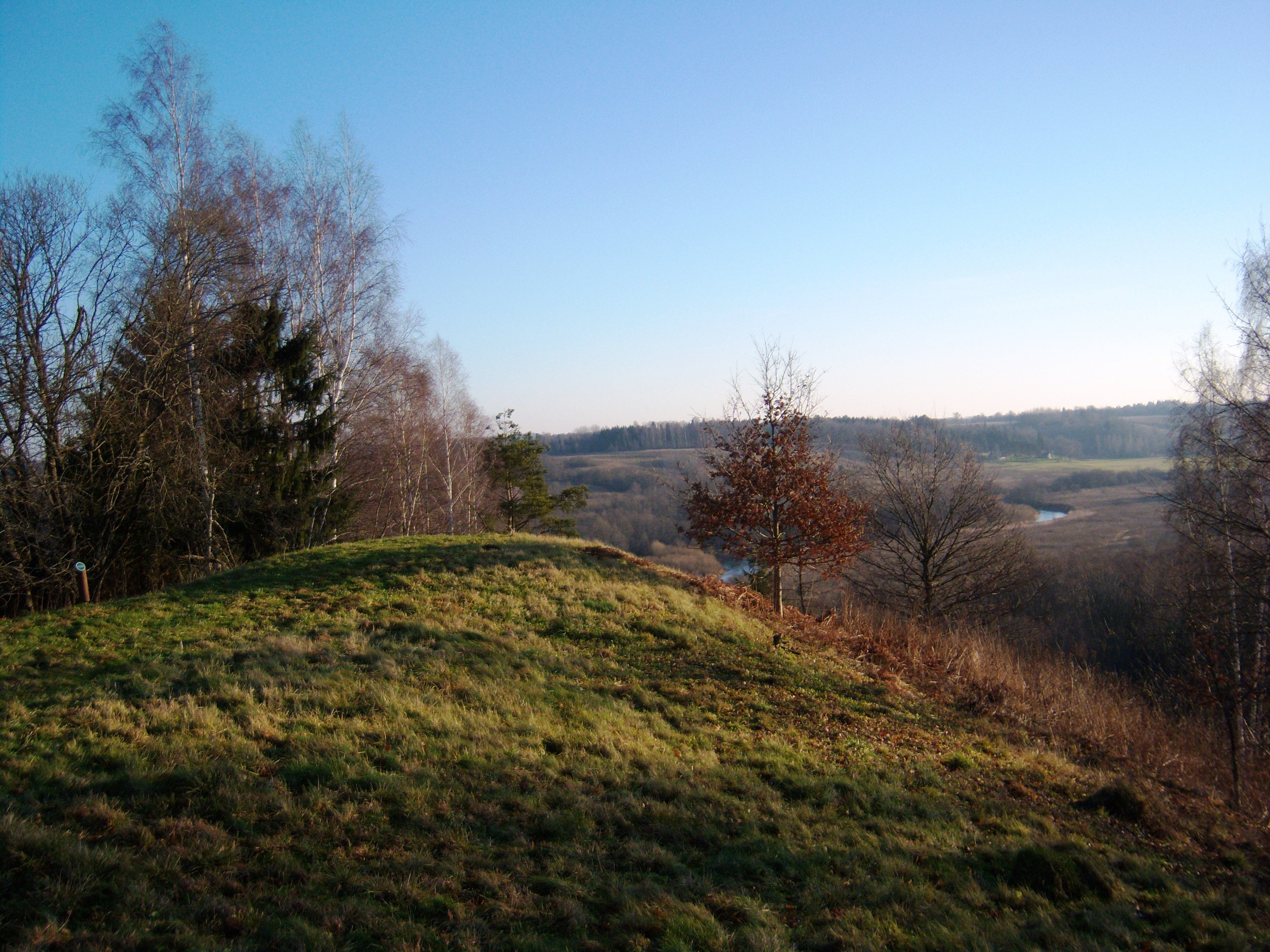 Padubysys Hillfort, Raseiniai District, Lithuania